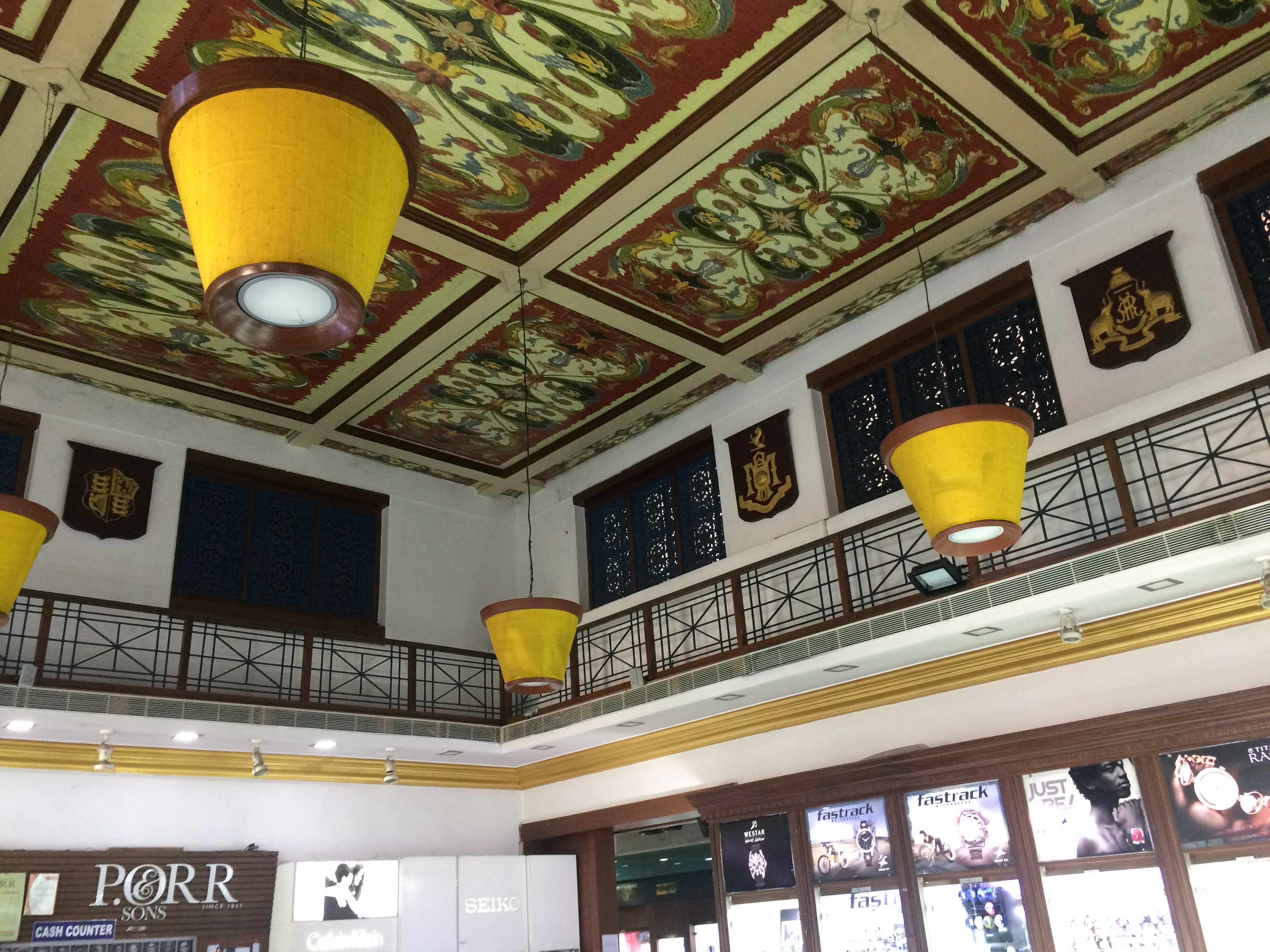 P.Orr & Sons - Watch showroom roof art work